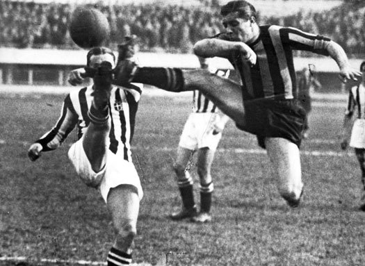 Derby d'Italia. Inter vs Juventus. Giuseppe Meazza